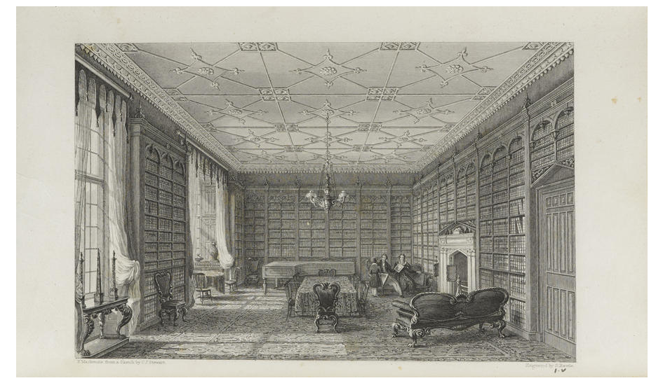 Eshton Hall Library from CURRER, MARY FRANCES RICHARDSON. 1785–1861. STEWART, C.J. A Catalogue of the Library Collected by Miss Richardson Currer, at Eshton Hall, Craven, Yorkshire. London: Privately printed, 1833